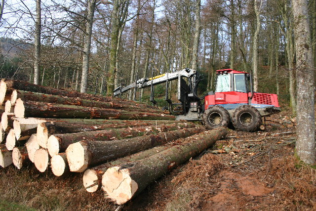 Timber Harvesting, Muncaster Fell.